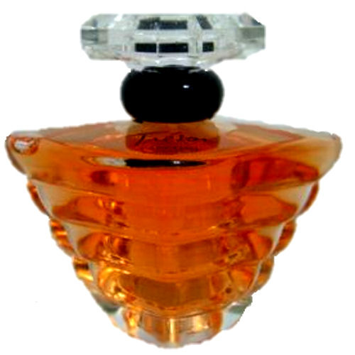 Parfum Trésor par Lancôme.